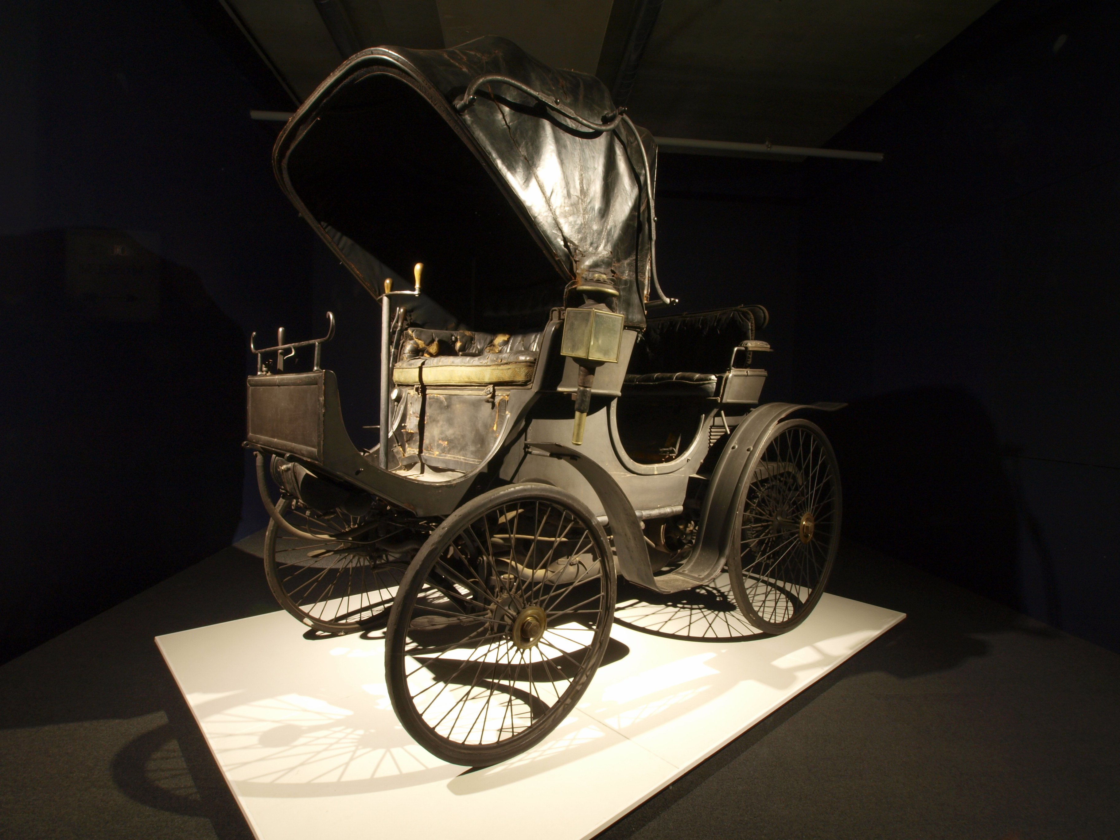 1894 Peugeot Type 6 Phaeton with Capote. Photographed at the Louwman museum, The Netherlands.